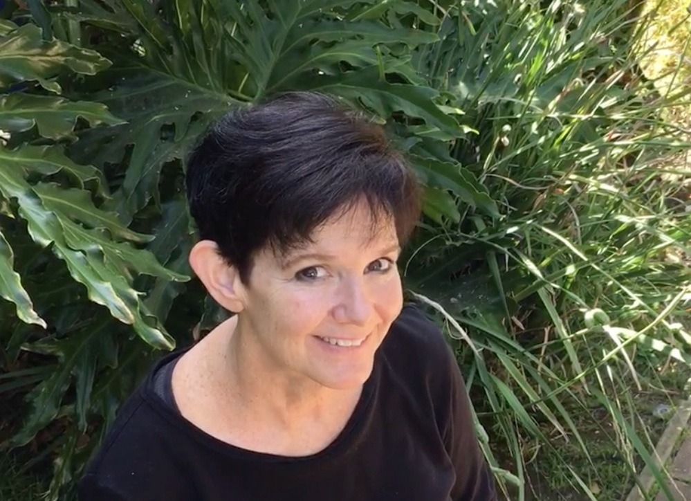 Photo of animator Eileen O'Meara